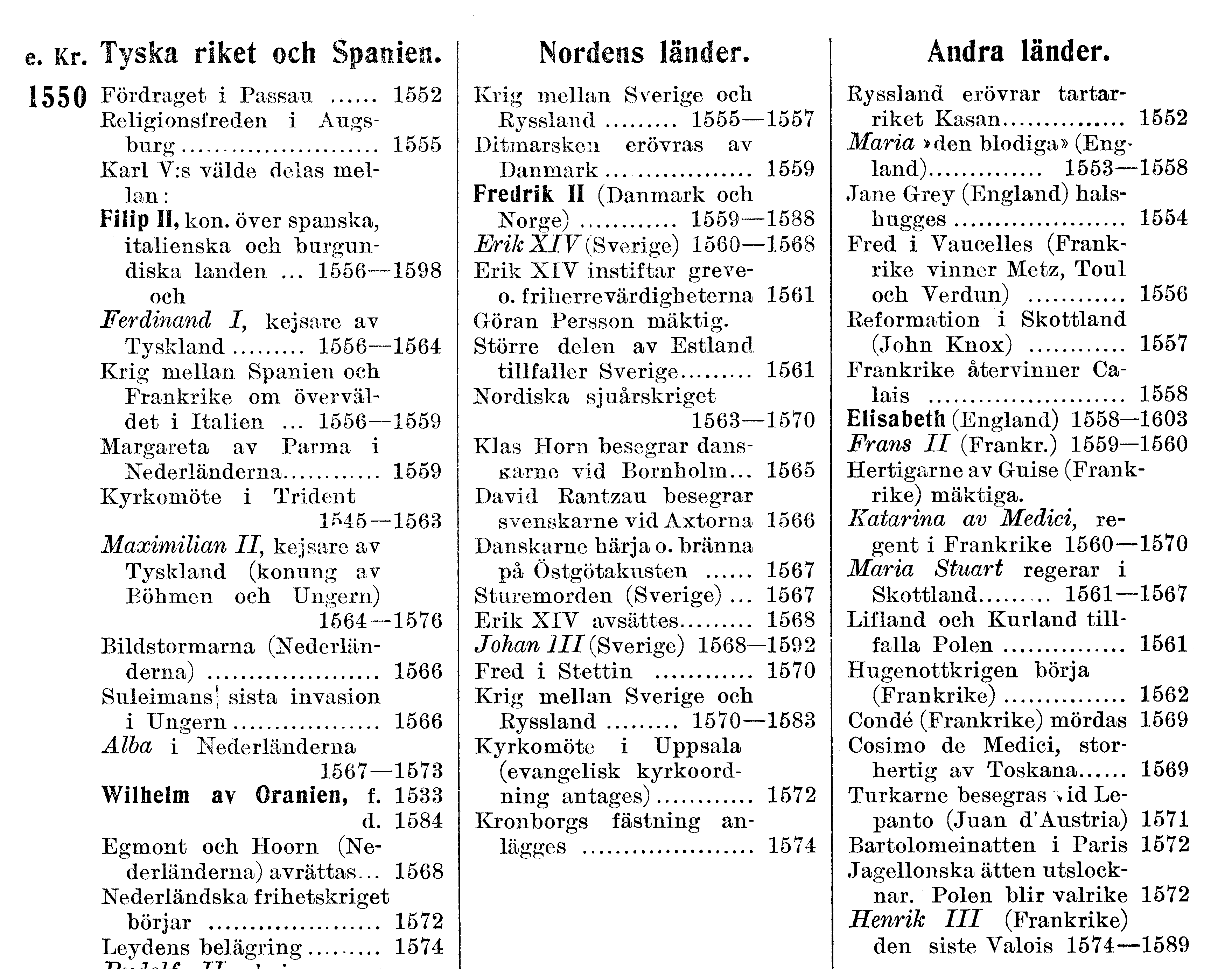 Example of parallel chronology, showing columns for 1) German Empire and Spain, 2) Nordic countries, 3) other countries, for the years 1550-1574.